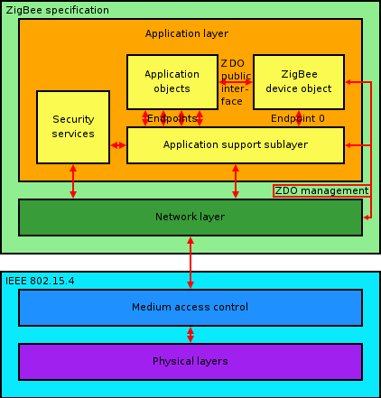 This diagram is a compact representation of the complete ZigBee protocol stack, including IEEE 802.15.4-defined bottom layers.